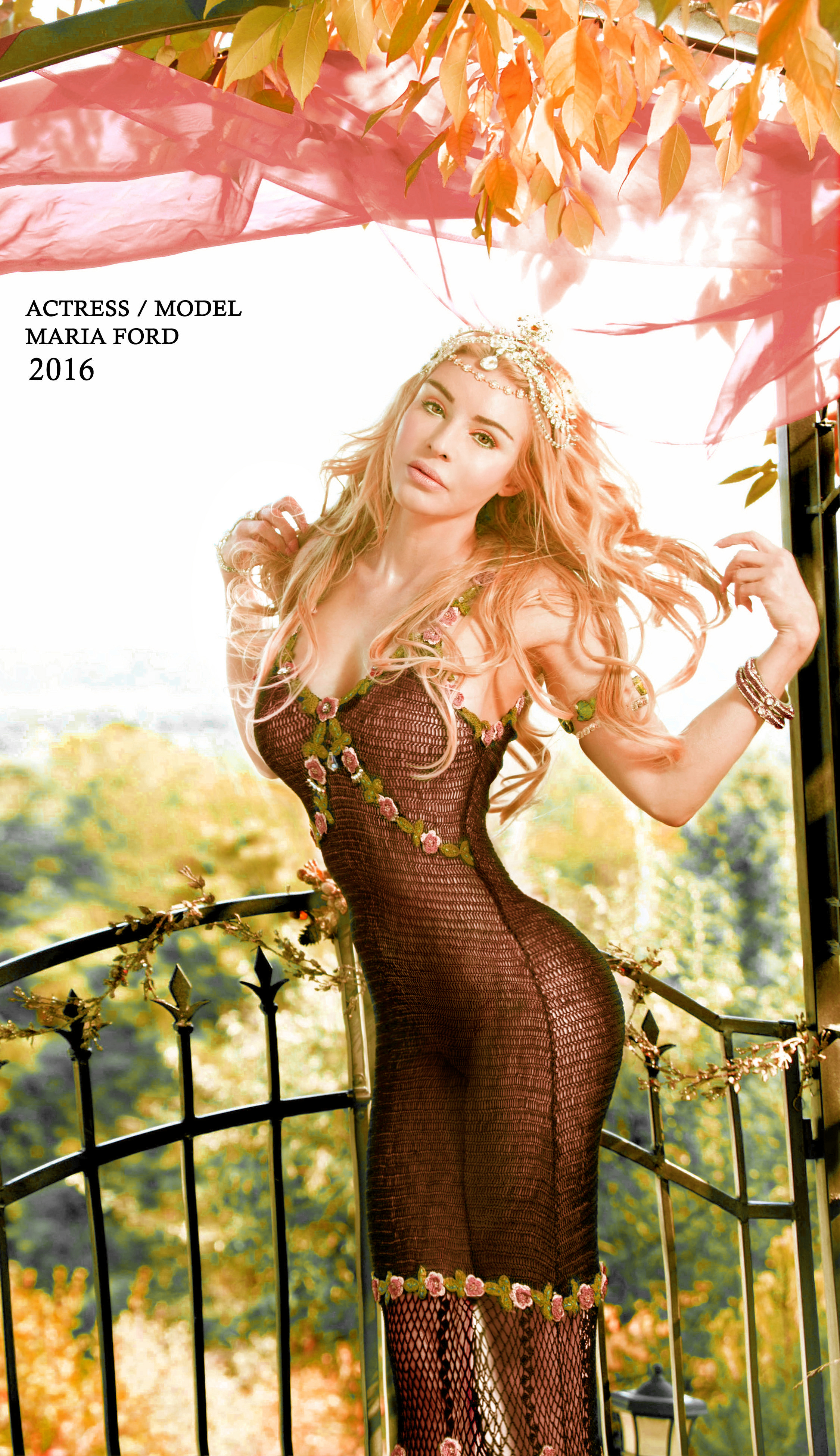 Maria Ford Actress, Dancer Model